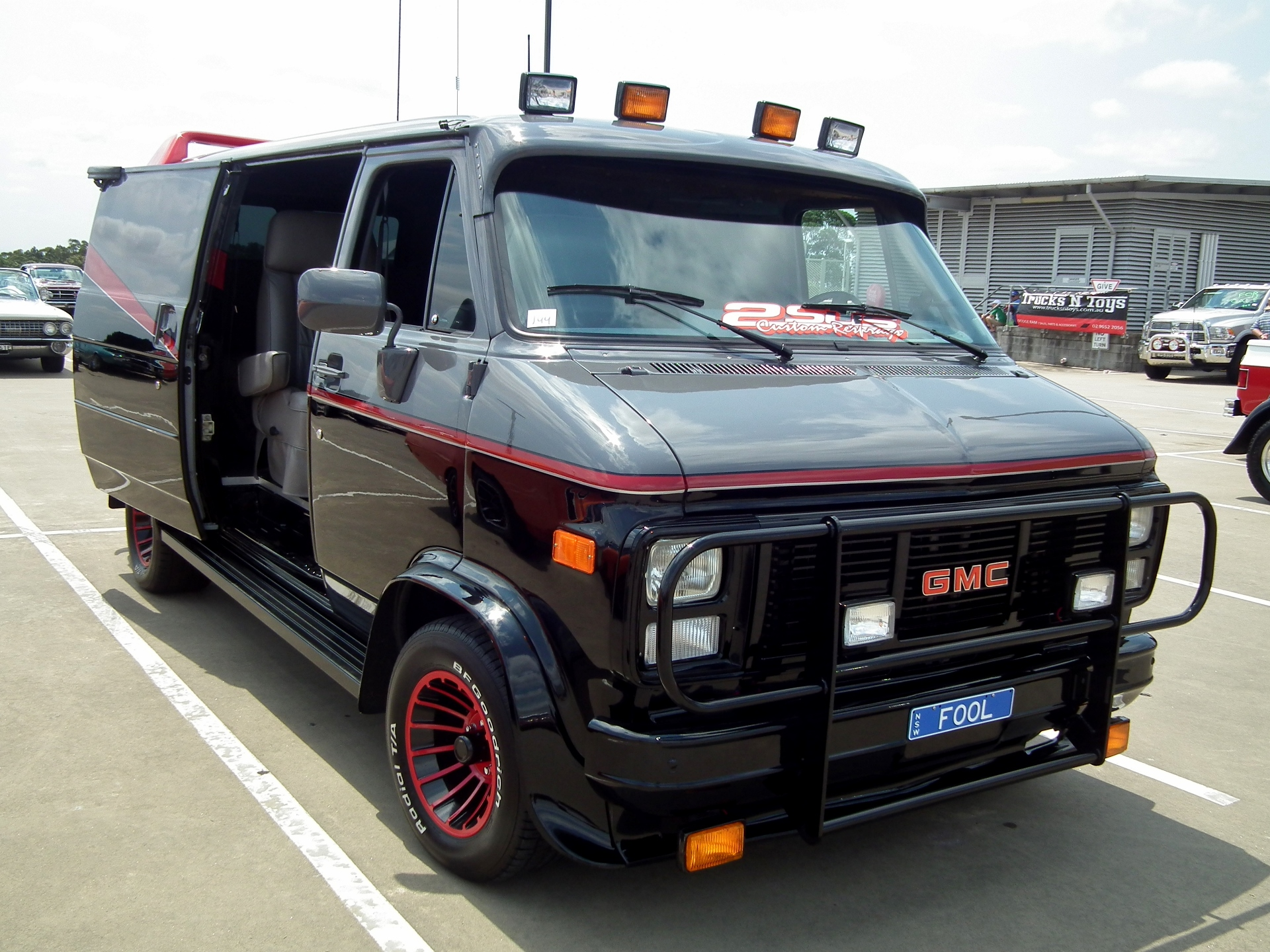 1983 GMC G-Series panel van - A Team. Taken at the 2014 New South Wales All American Day, held at Castle Towers Shopping Centre, Castle Hill, Sydney.